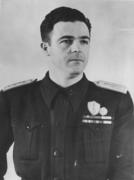 Aldo Vidussoni